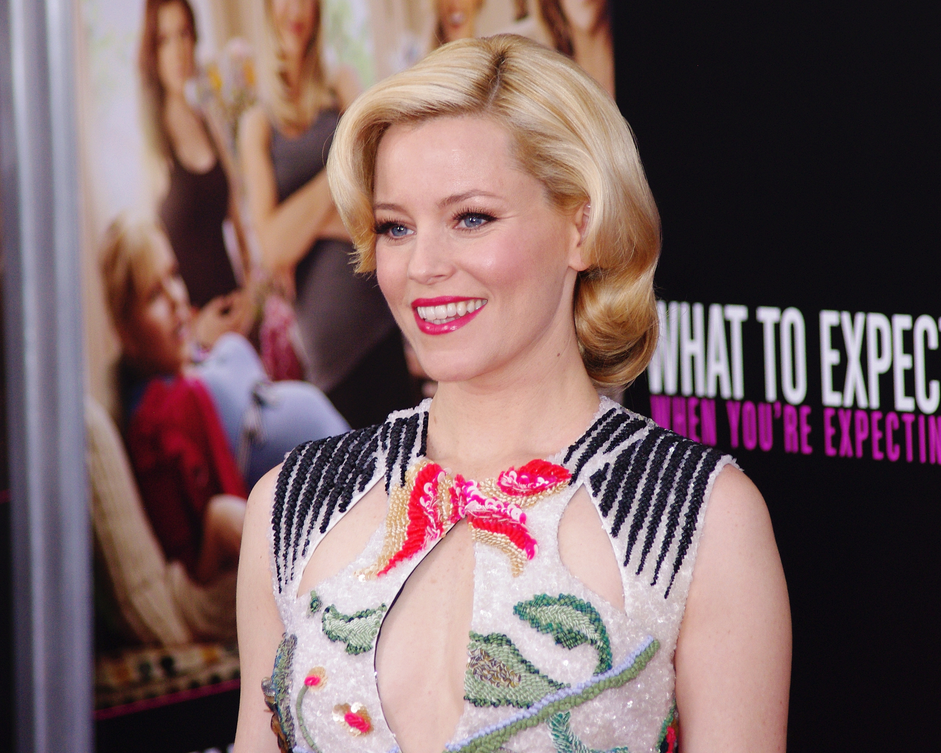 Elizabeth Banks at the 2012 premiere of What to Expect When You're Expecting in New York